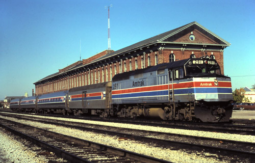 The Niagara Rainbow at the Saint Thomas railway station, 1978